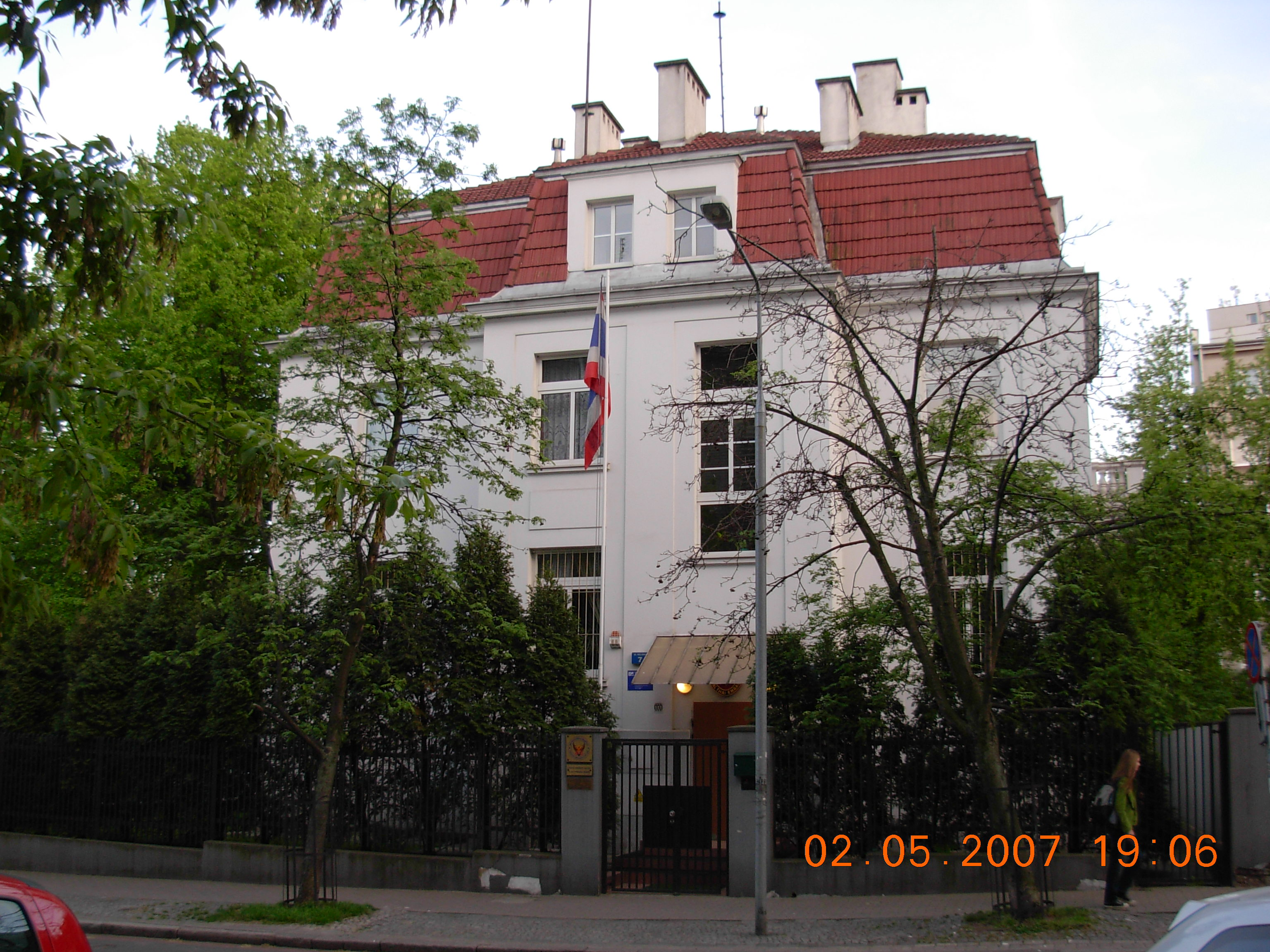 Thai Embassy in Warsaw